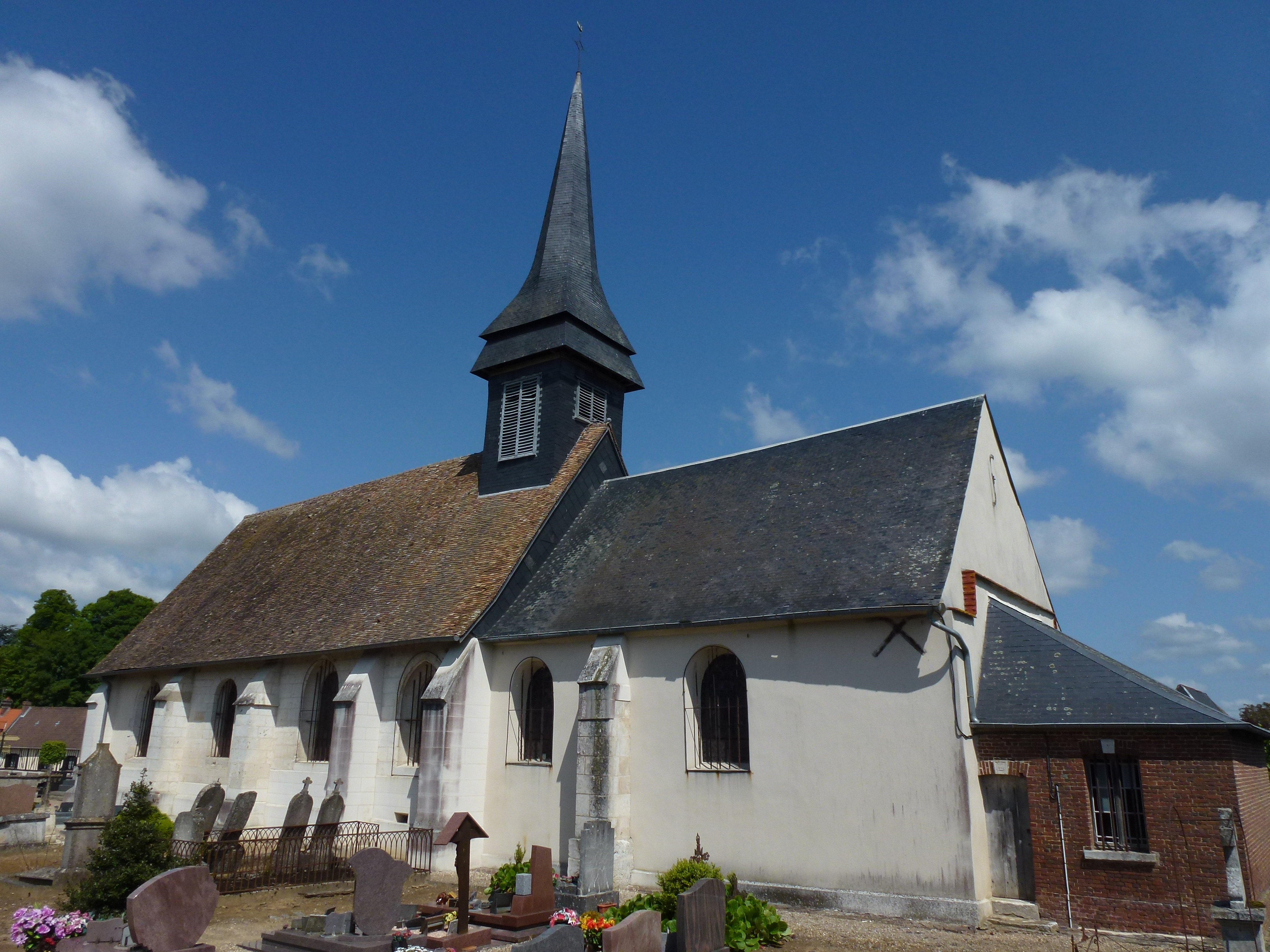 La Haye-du-Theil (Eure, Fr) église Saint-Ursin.